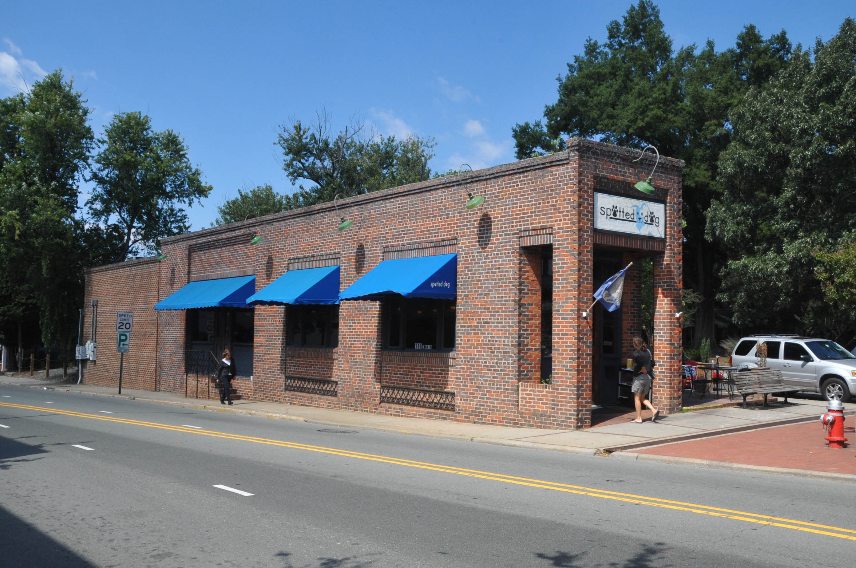 THIS DISTRICT COMPRISES THE SOUTH SIDE OF MAIN STREET; THE “FLATIRON BUILDING” PICTURED FITS IN THE TRIANGULAR GROUND BETWEEN MAIN AND WEAVER STREETS WHICH ARE THE PRINCIPLE STREETS OF CARRBORO